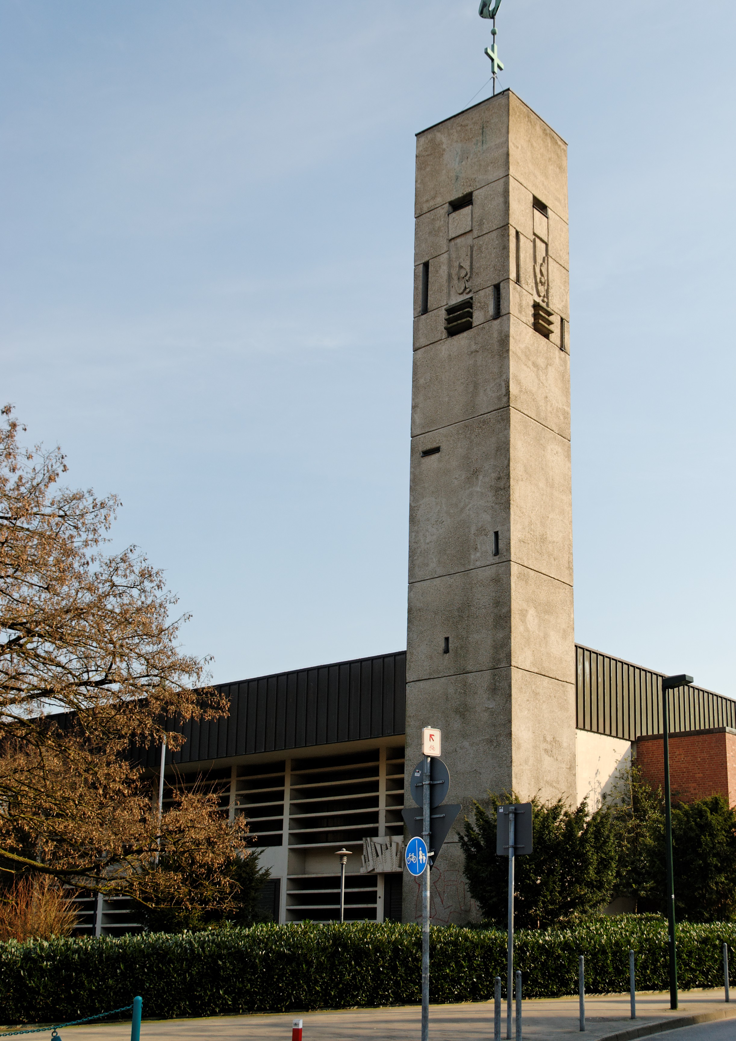 Church St. Ludger in Duesseldorf-Bilk, Germany